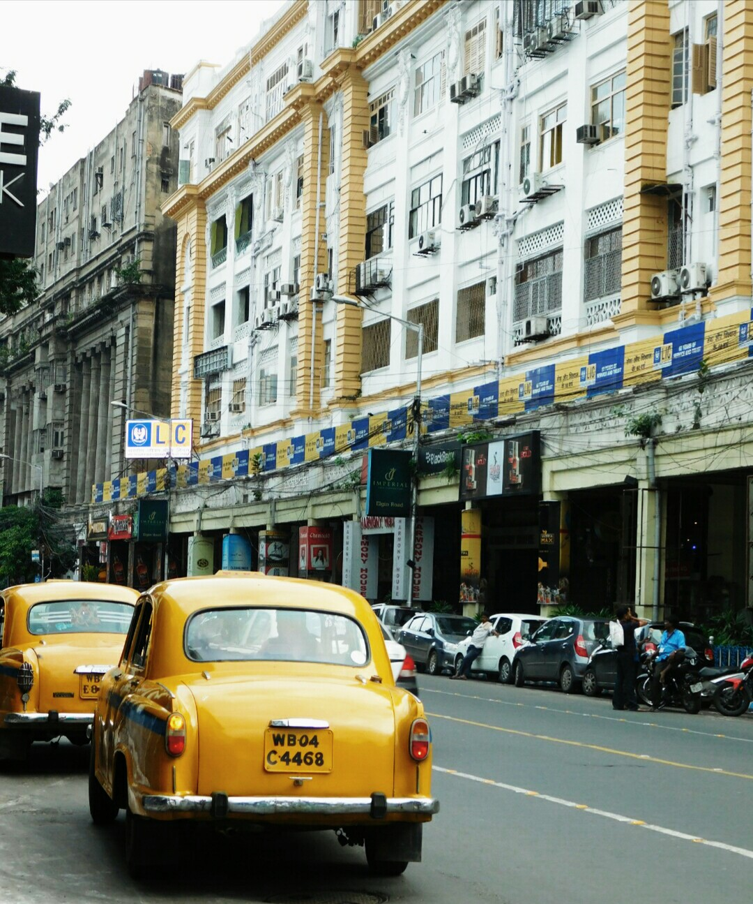 Street view with old taxis in Park Street, Kolkata, India captured by Tonay Kar